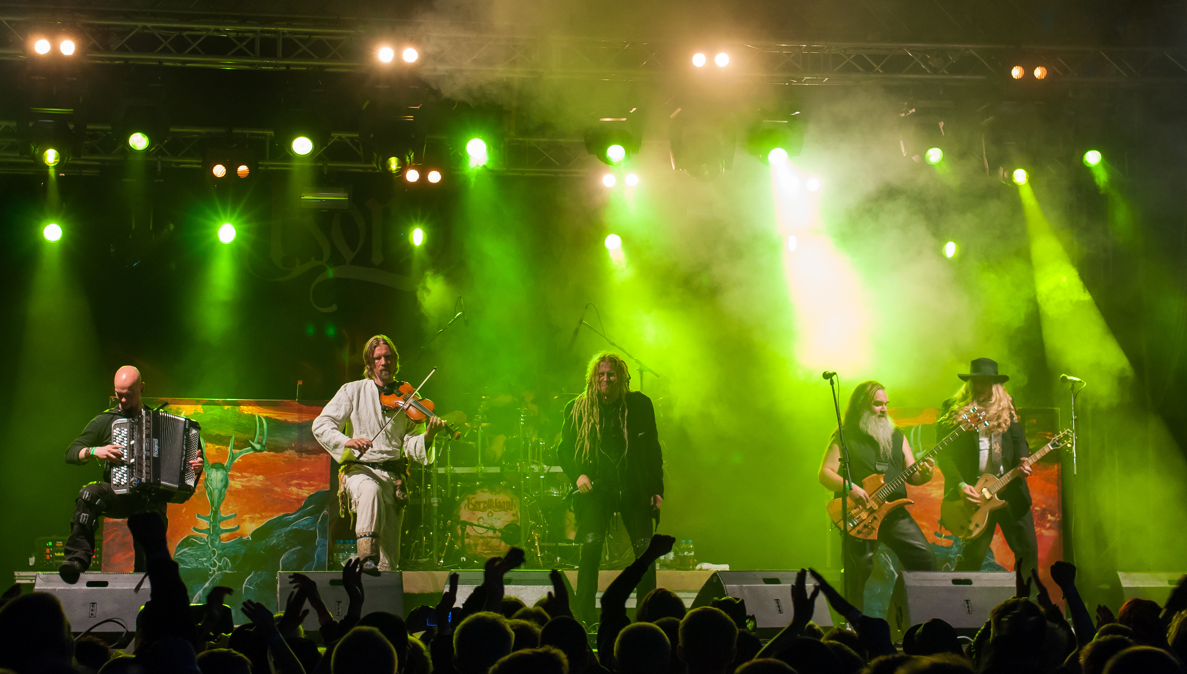 Finnish folk metal band Korpiklaani performing at the Rakuunarock festival in Lappeenranta, Finland.